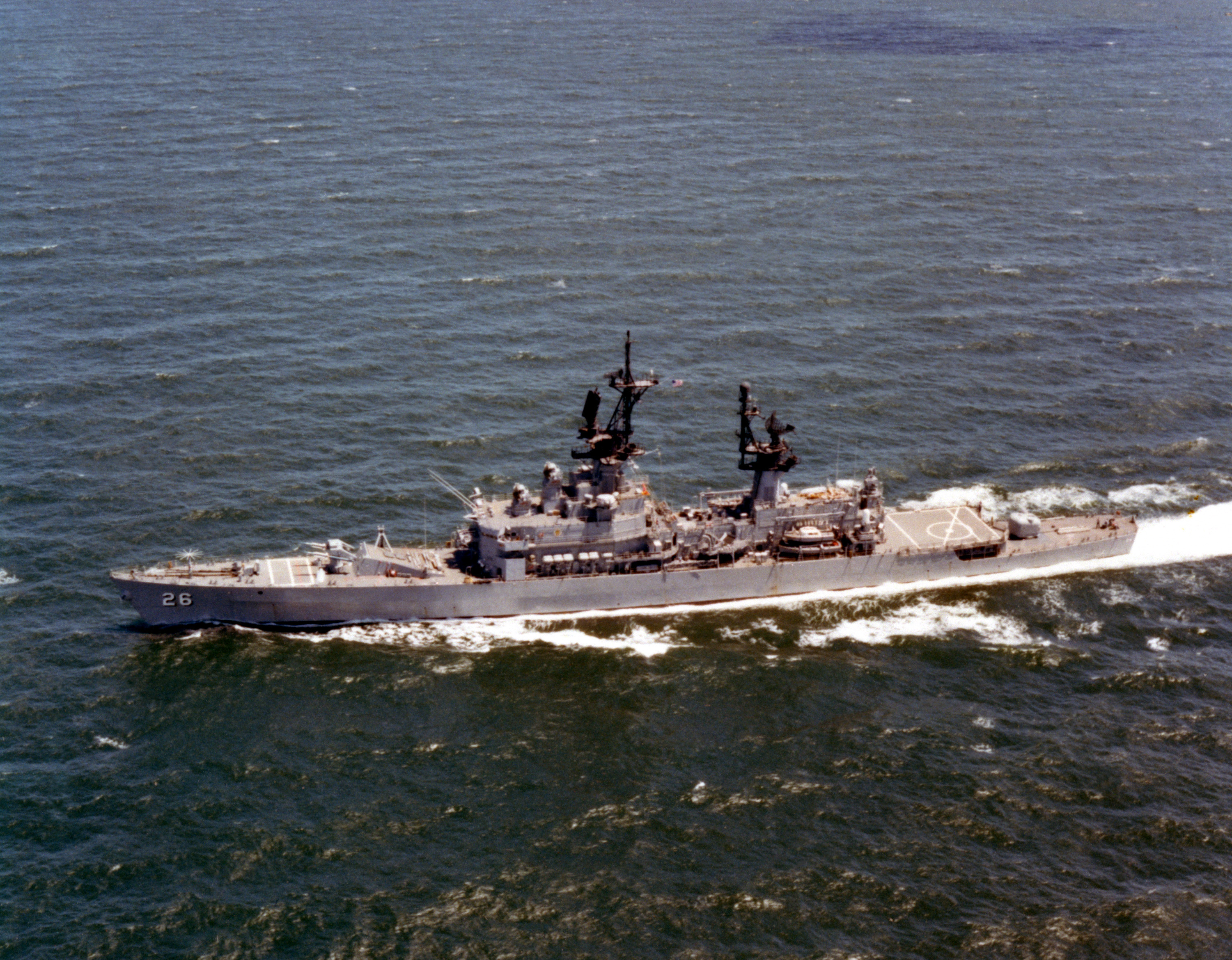 The U.S. Navy guided missile cruiser USS Belknap (CG-26) underway in the Atlantic Ocean, in 1981.